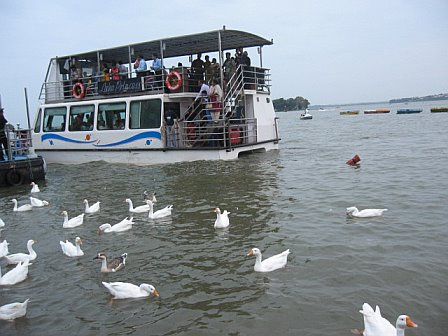 Tourists enjoying their time at one of the many popular destinations in Bhopal